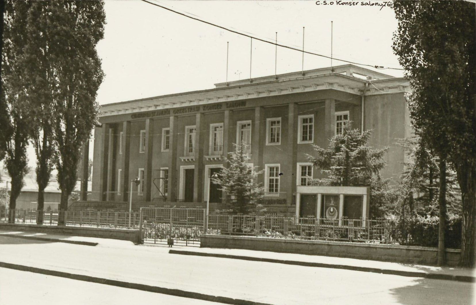 The concert hall of the Presidential Symphony Orchestra, which was founded in 1826 by Sultan Mahmut II with the name “Mızıka-ı Hümayun”, is located on Talatpaşa Boulevard in Ankara. Built as an exhibition center, the building was assigned to the orchestra in 1958 and converted into a concert hall by Ertuğrul Özakdemir and Feridun Helvacıoğlu in 1962. The building includes morphological characteristics in the style of the Second Nationalist Architecture movement, but also comprises neo-classical details. Its facade is clad with grey, red and ivory travertine, similar to the Ankara Opera Building. In the 1990s the foyer of the building was renovated. Later in 2007 the whole building was emptied and renovated to re-open for the 2008-2009 concert season. A new building for the Presidential Symphony Orchestra is currently under construction on a site between the existing concert hall and the Ankara Palace of Justice. SALT Research, Photograph Archive Temeli, 1826’da Sultan II. Mahmut devrinde kurulan Mızıka-i Hümayun’a dayanan Cumhurbaşkanlığı Senfoni Orkestrası’nın konser salonu, Ankara’da Gençlik Parkı’nın güneyinde, Talatpaşa Bulvarı üzerinde konumlanmaktadır. 1958’de sergi evi olarak inşa edilen bina, 1961’de orkestraya tahsis edilmiş, 1962’de Ertuğrul Özakdemir ve Feridun Helvacıoğlu tarafından konser salonuna dönüştürülmüştür. Cephesinde, Ankara Opera Binası’na benzer şekilde gri, kırmızı ve fildişi renklerde traverten kullanılmıştır. Kitlesel olarak II. Ulusal Mimarlık özellikleri taşımakla birlikte, Neoklasik üslupta detaylar da içermektedir. 1990’larda fuayesi yenilenen bina, 2007’de boşaltılarak yenileme projesine tabi tutulmuş, akustik kalitesi yükseltilerek 2008-2009 sezonunda yeniden hizmete açılmıştır. Cumhurbaşkanlığı Senfoni Orkestrası’nın, şimdiki salonu ile Ankara Adalet Sarayı arasındaki boş arazide konumlanacak yeni binasının yapımı hâlen devam etmektedir. SALT Araştırma, Fotoğraf Arşivi